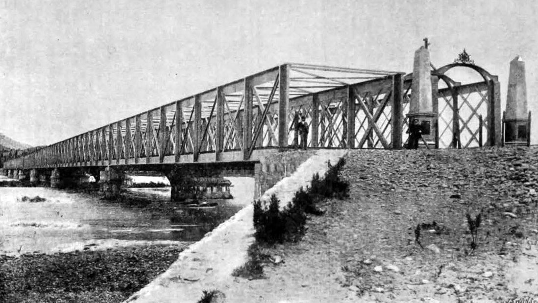 Maule Road-rail bridge ca. 1889. Designed by Domingo V. Santa María, Civil Engineer, for Ministerio del Interior of Chile. Iron superstructure built by Lever, Murphy and Company, boilerworks foundry based in Valparaíso.